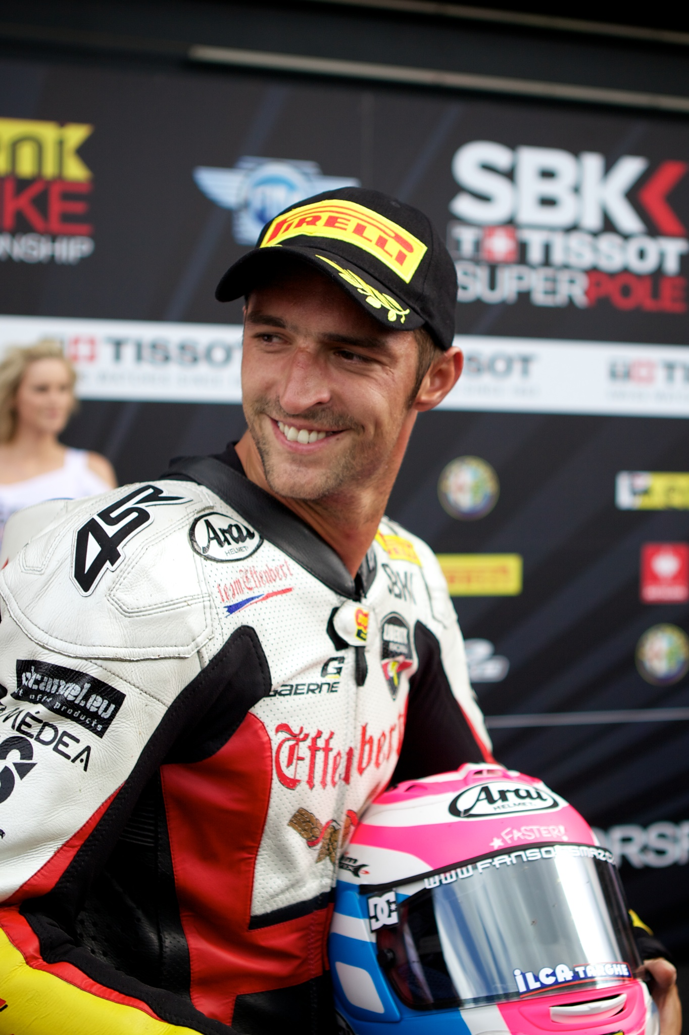 Jakub Smrz, after getting pole position, Silverstone World Superbike, 2012.